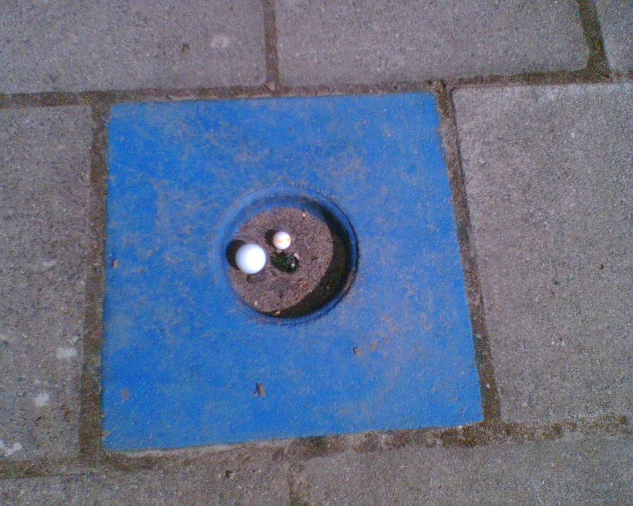 Special tile to play with marbles